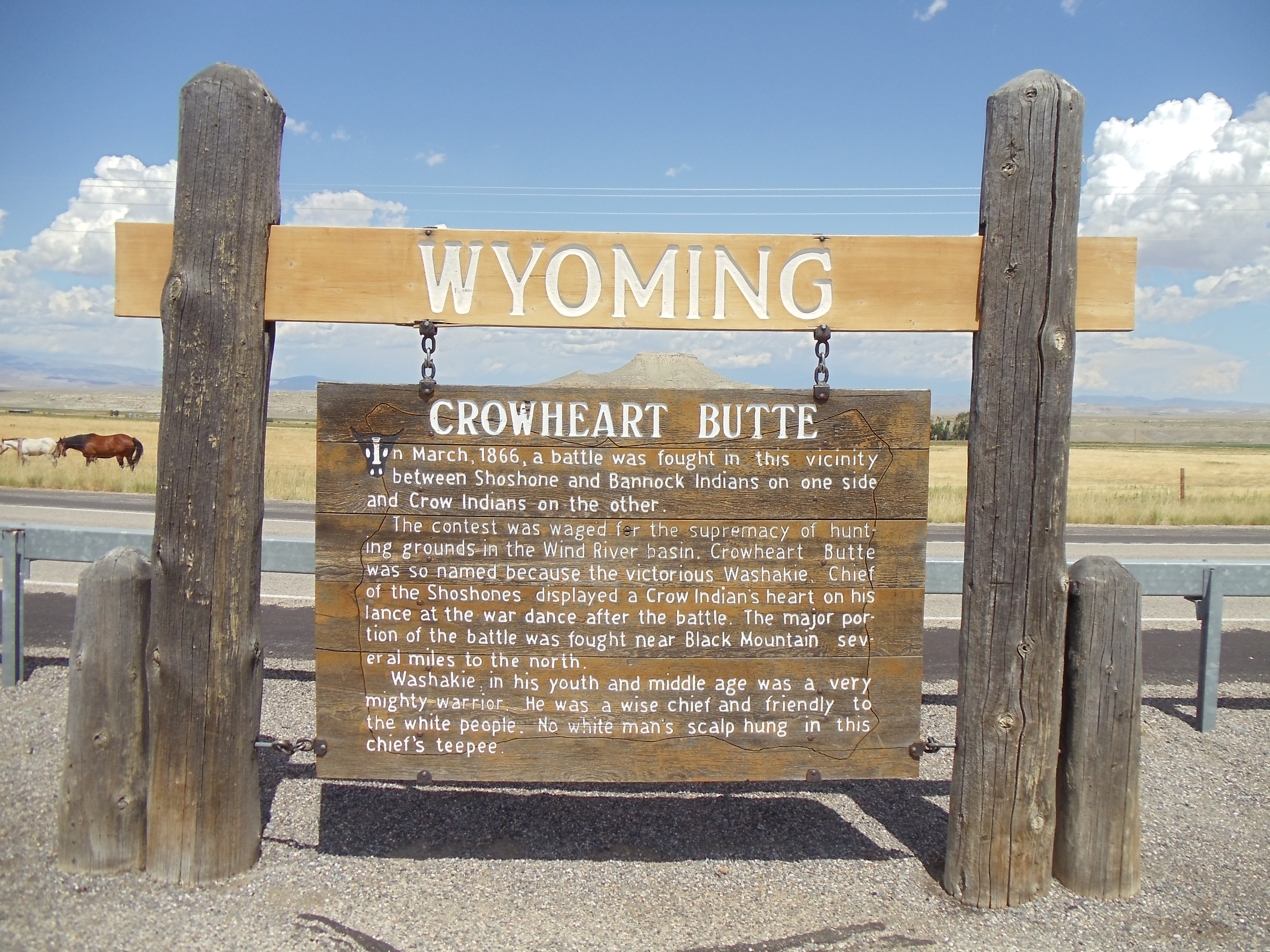 A sign tells the story of the naming of Crowheart Butte near the city of Crowheart, Wyoming. The text reads: "In March, 1866, a battle was fought in this vicinity between Shoshone and Bannock Indians on one side, and Crow Indians on the other. The contest was waged for the supremacy of hunting grounds in the Wind River basin. Crowheart Butte was so named because the victorious Washakie, chief of the Shoshones, displayed a Crow Indian's heart on his lance at the war dance after the battle. The major portion of the battle was fought near Black Mountain several miles to the north. Washakie in his youth and middle age was a very mighty warrior. He was a wise chief and friendly to the white people. No white man's scalp hung in this chief's teepee".